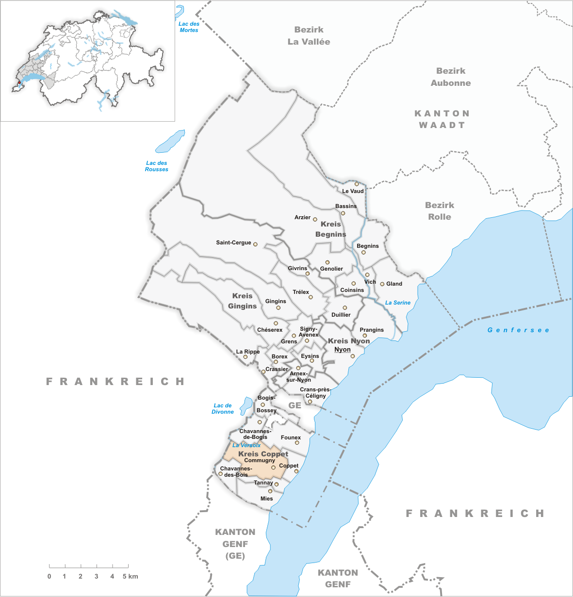 Municipality Commugny